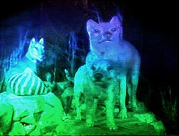 This is a modified version of "Hol.Thylacines.jpg" created by "Receptive".